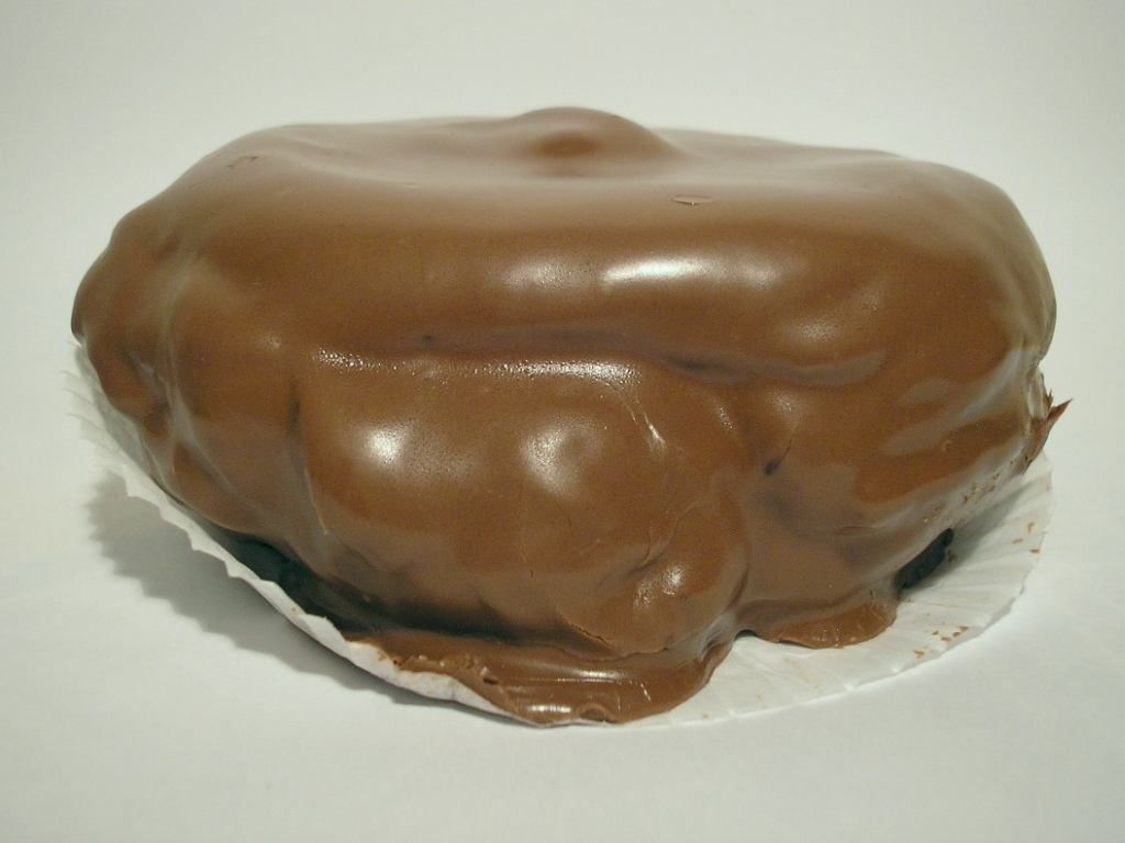 "Bossche Bol": pastry from the city of Den Bosch (although this one came from a supermarket chain and cannot be compared to the original